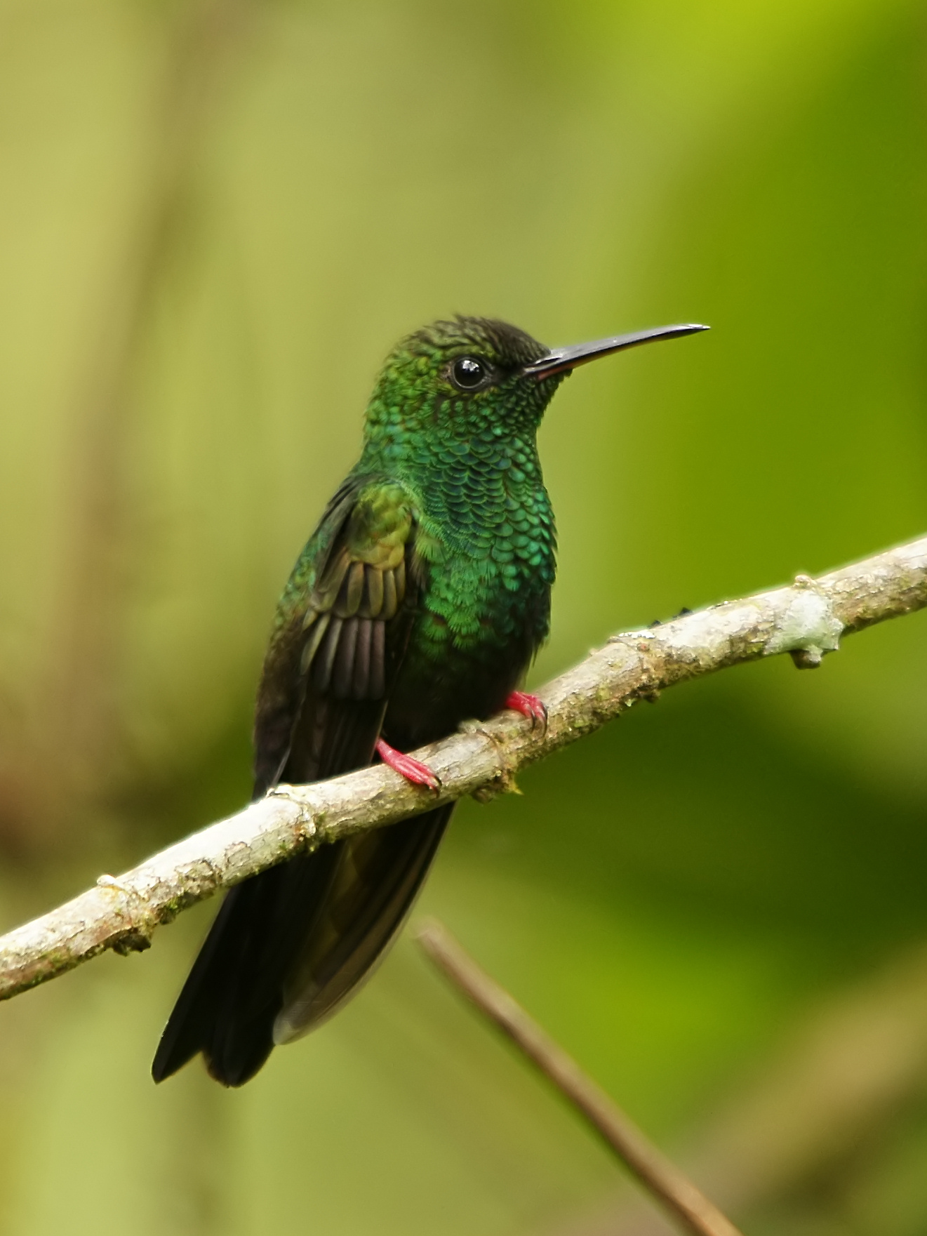 Male Red-footed Plumeleteer at Rara Avis near Las Horquetas, Costa Rica